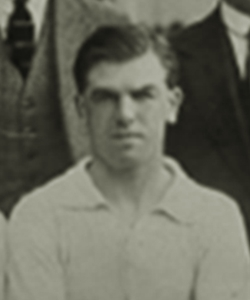 Levitt - Brentford 1920-21 - Cropped from an unmarked team postcard.